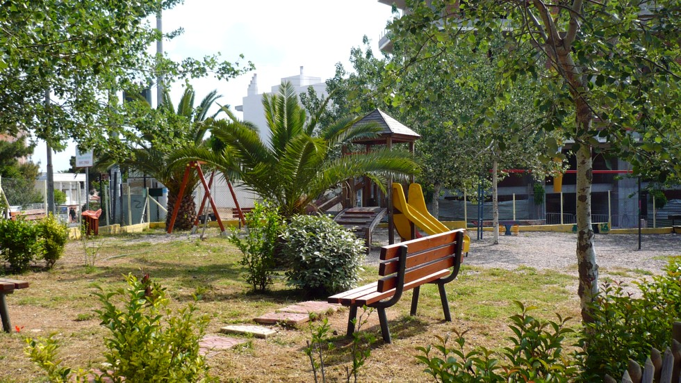 The above picture depicts a playground at Spata.